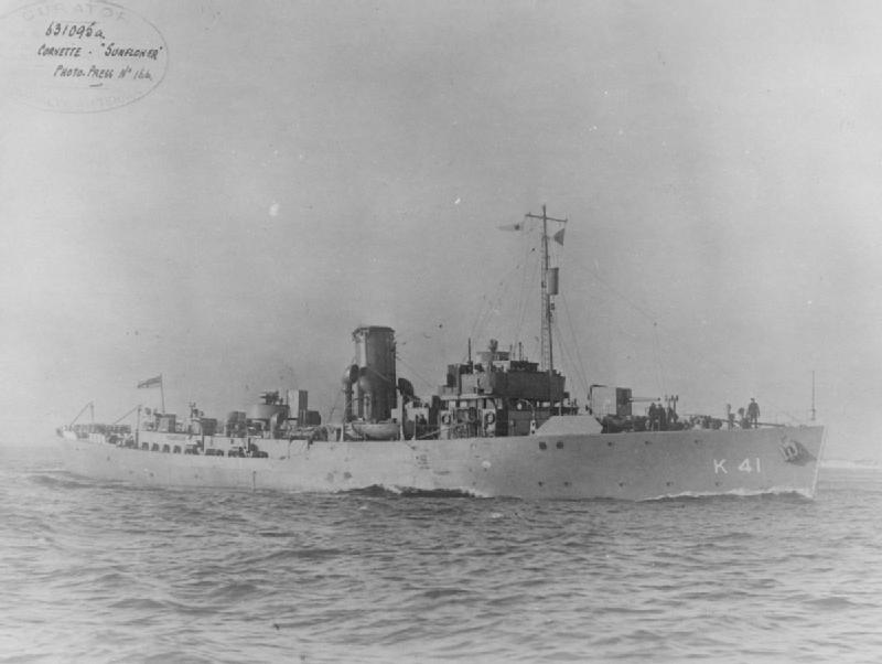 HMS Sunflower Underway on completion.